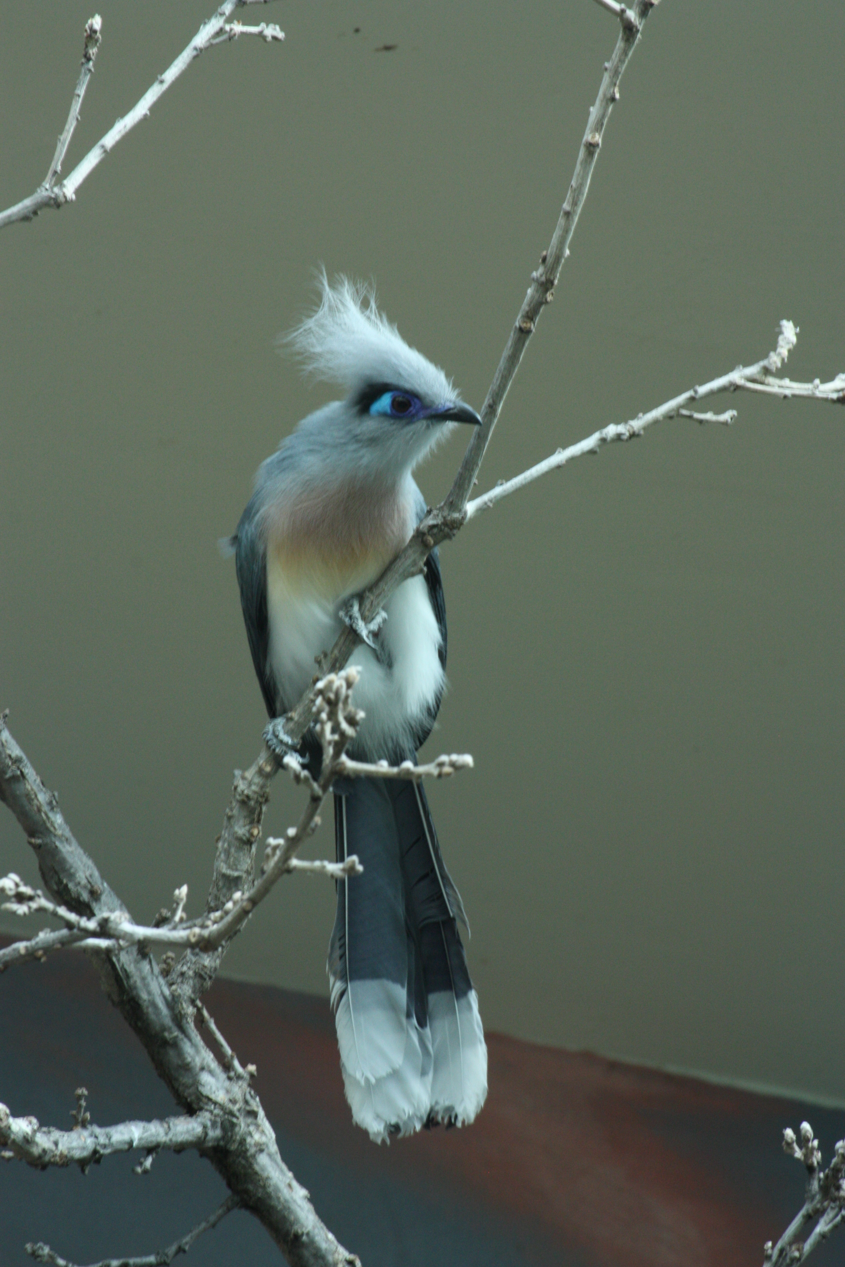 A Crested Coua at Toledo Zoo, Ohio, USA.